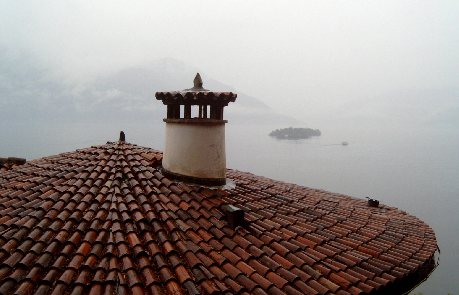 Roof above the Lago Maggiore. The picture was taken between Moscia and Porto Ronco, near Locarno, at the Swiss north-western edge of the lake, looking to the southeast. The island is the Isole di Brissago.